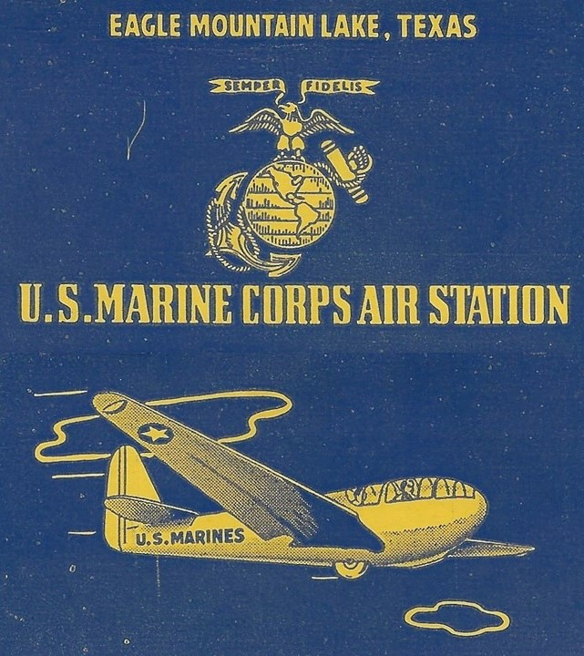 This is a cut and paste of two opposing sides of a matchbook cover from MCAS Eagle Mountain Lake. The matchbook is most likely from 1943 when the Glider program was active at the Station. The Marine Corps divested itself of the gliders later in 1943.